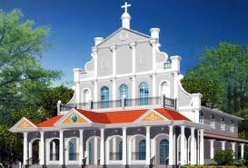 St. Fancis Xavier Church Bejai 1